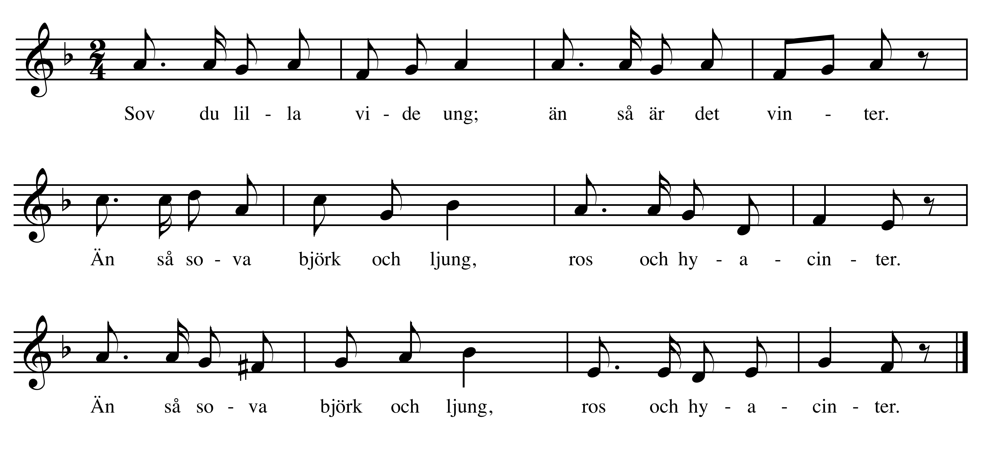 Solskenets_visa_(Hallström).png